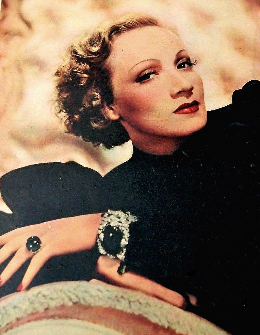 Photo of Marlene Dietrich from the front cover of the New York Sunday News magazine.